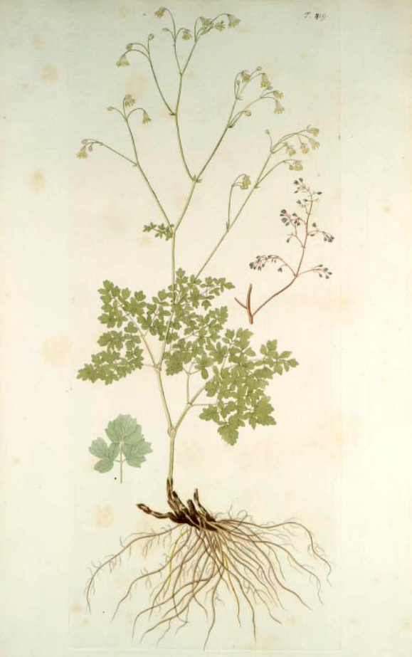 Illustration of Thalictrum minus